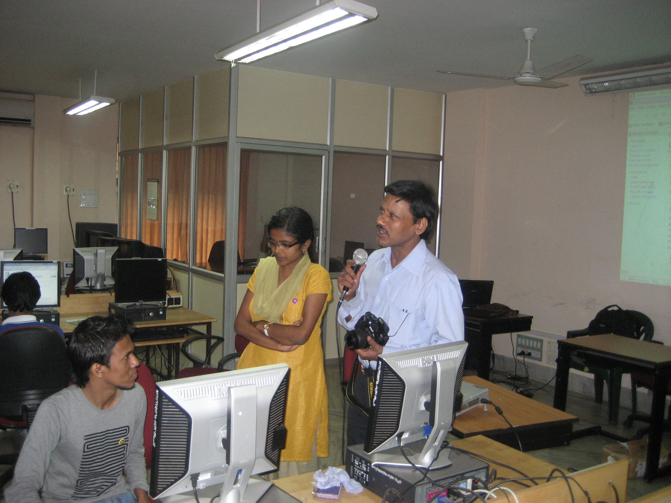 Viswam and Neta facilitating Wiki Academy at NIT, Calicut